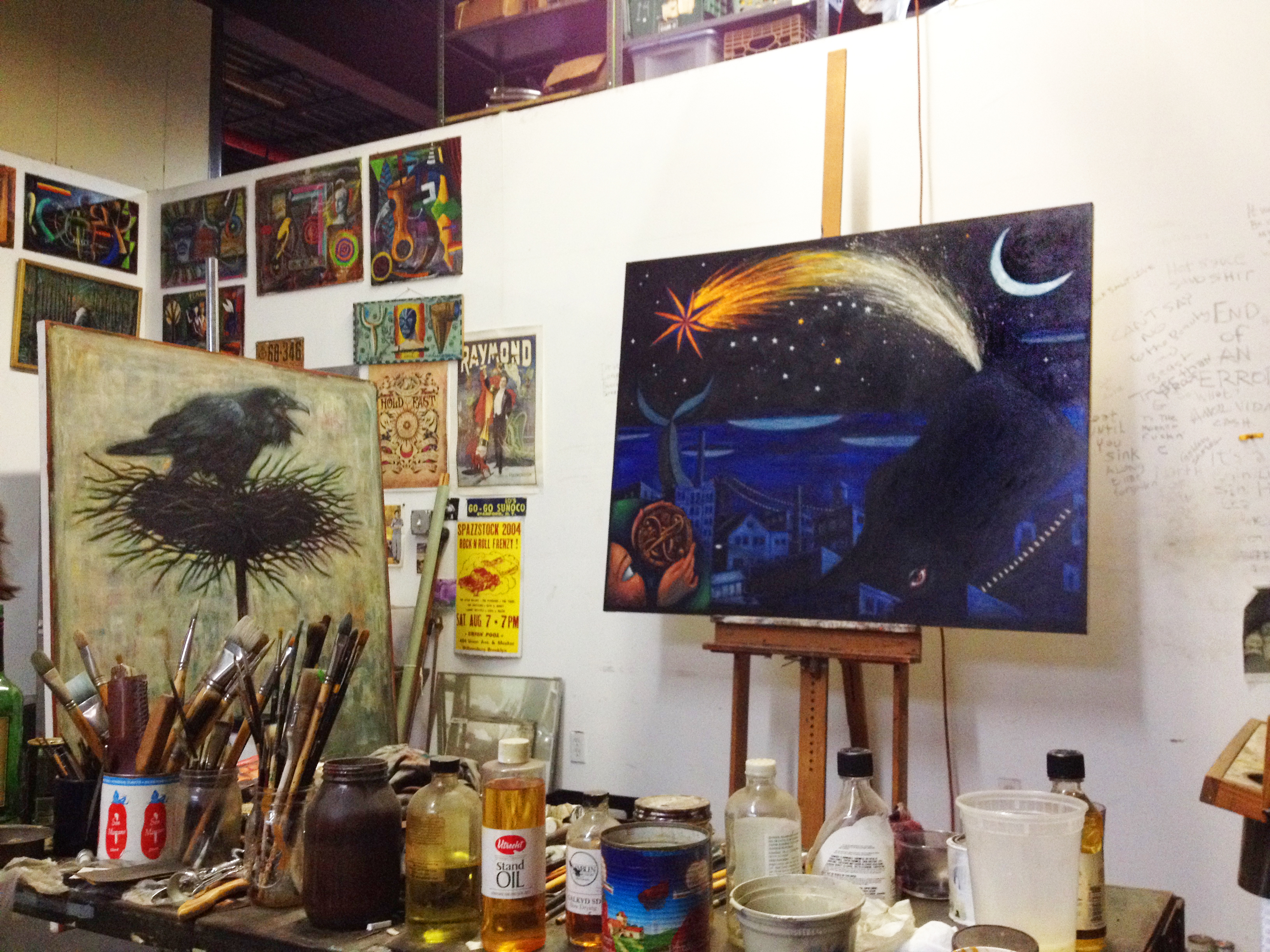 Ray Abeyta's studio as he left it in December 2014. Williamsburg, Brooklyn, New York, USA.